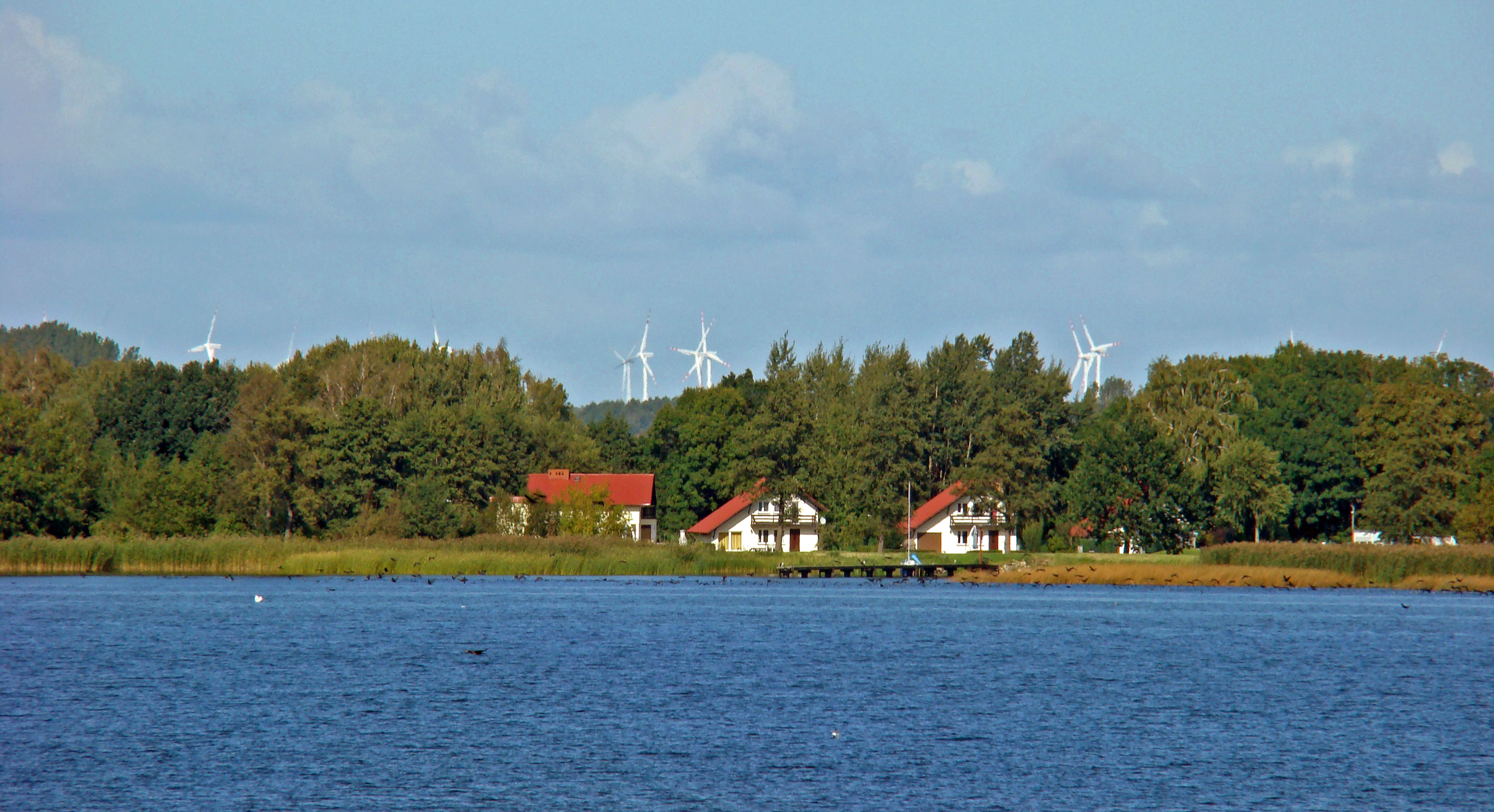 Swietowice, West Pomeranian Voivodeship, Poland